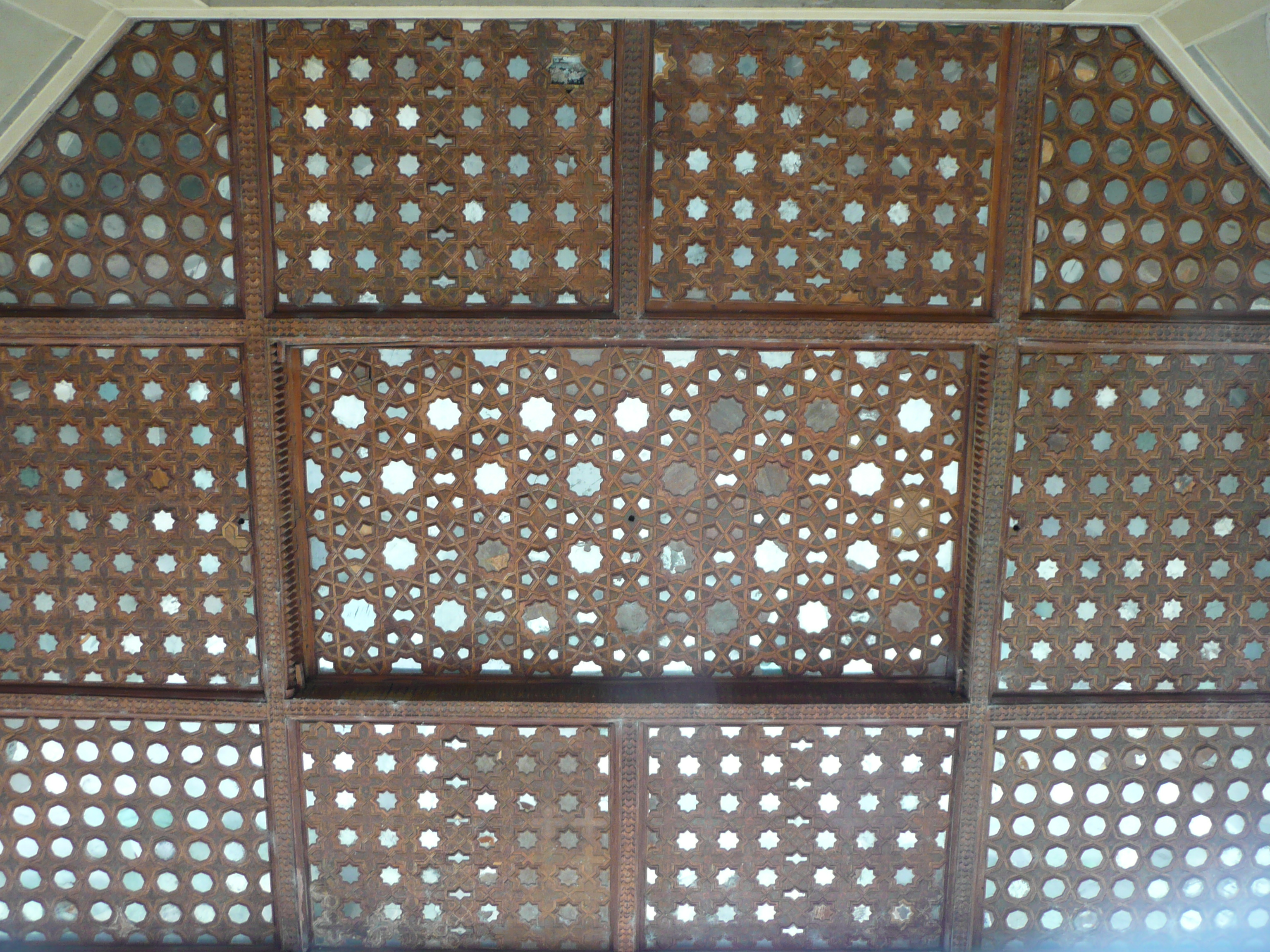 Photographs from Isfahan, Iran